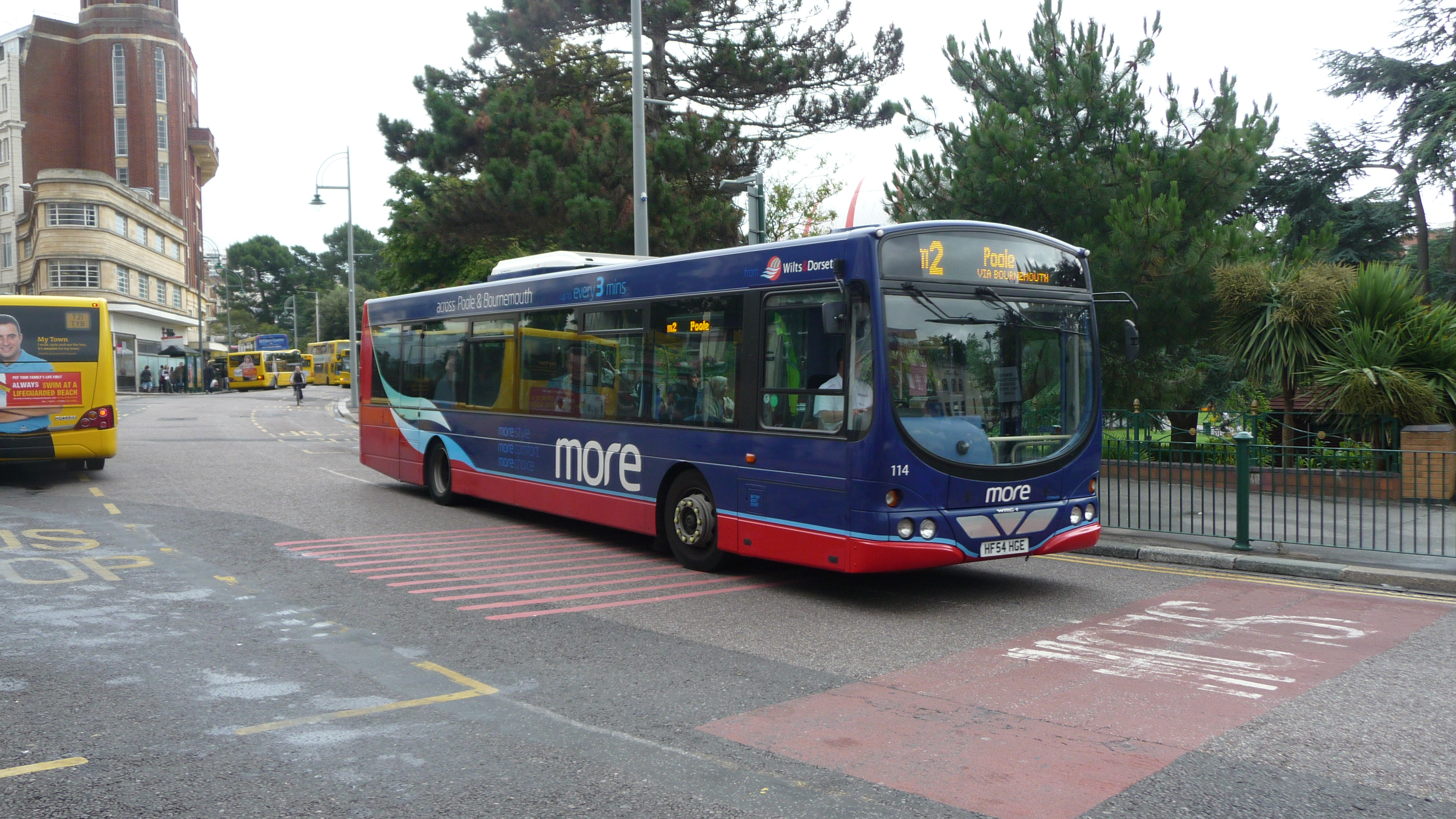 Wilts & Dorset 114 (HF54 HGE), a Volvo B7RLE/Wright Eclipse Urban, in Gervis Place, Bournemouth, Dorset, on more route m2.